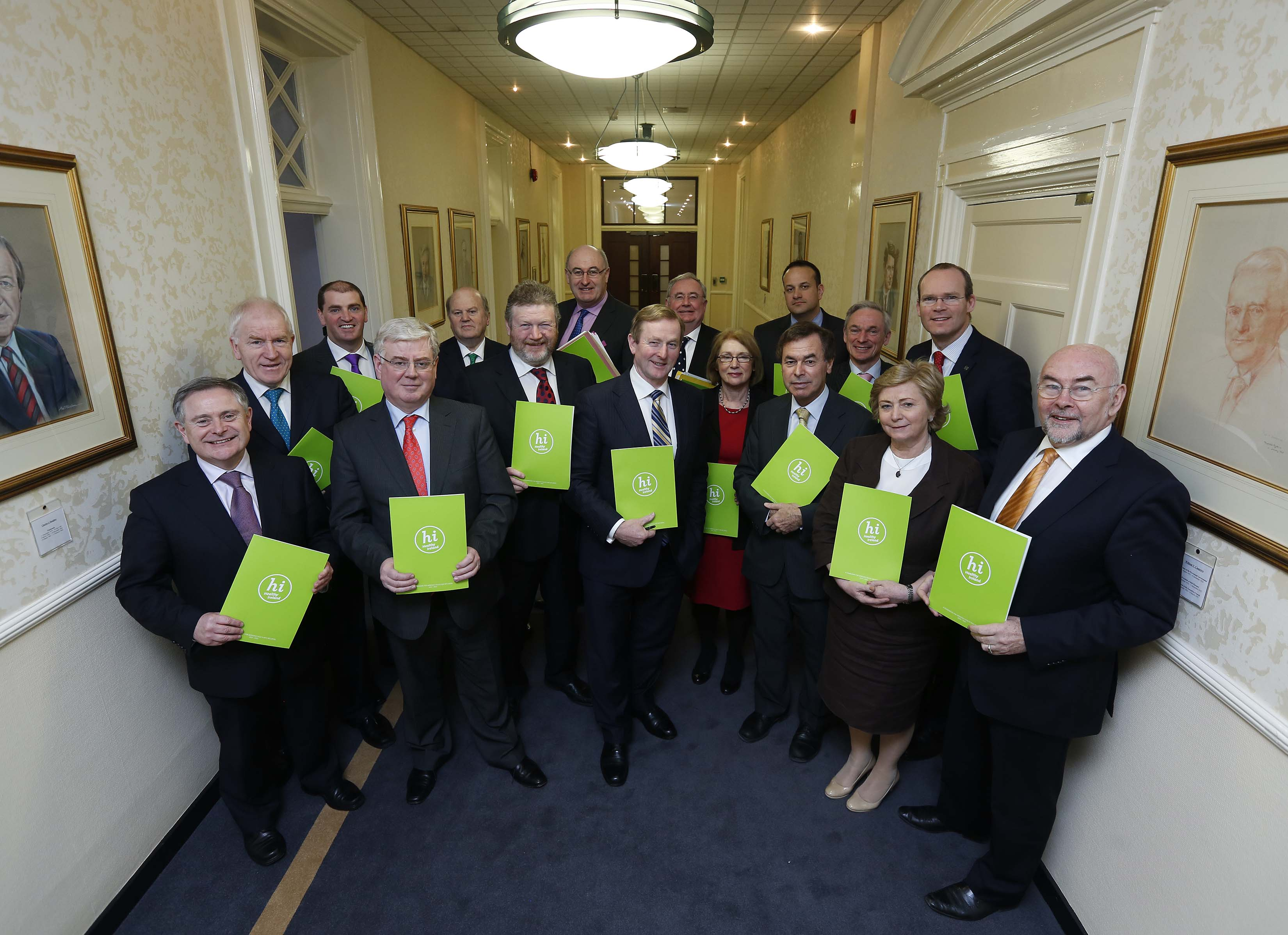 'Marking the publication of the Healthy Ireland Framework at Government Buildings (front row left to right) Minster Brendan Howlin,Tánaiste Eamon Gilmore, Minister James Reilly, Taoiseach Enda Kenny, Minister of State Jan O'Sullivan, Minister Alan Shatter, Minister Frances Fitzgerald, Minister Ruairí Quinn. (Back row left to right) Minister Jimmy Deenihan, Minister of State Paul Kehoe, Minister Michael Noonan, Minister Phil Hogan, Minister Pat Rabbitte, Minister Leo Varadkar, Minister Richard Bruton, Minister Simon Coveney'